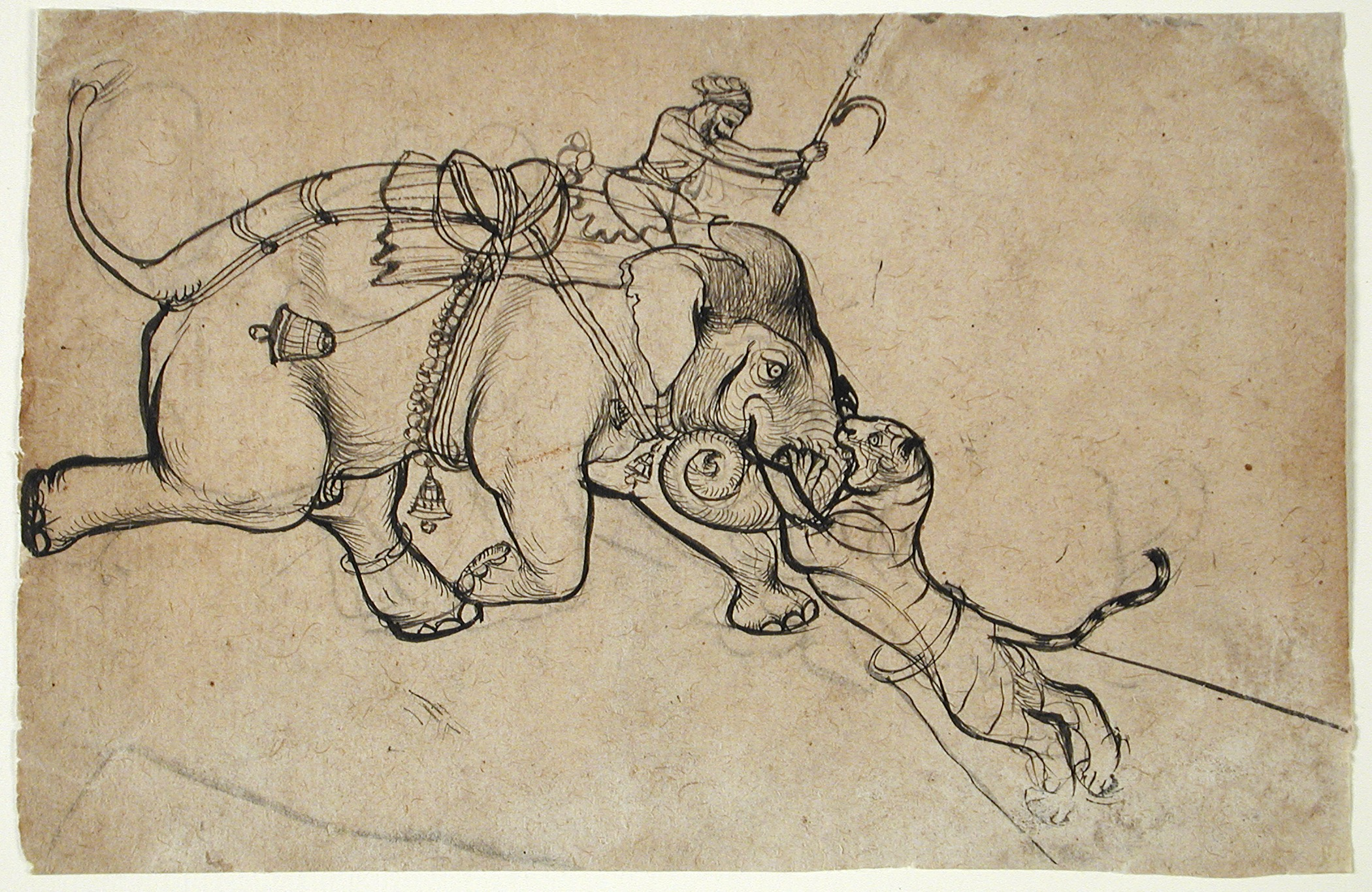 India, Rajasthan, Kota, 1825-1850 Drawings Ink on paper 5 5/8 x 8 1/2 in. (14.27 x 21.59 cm) Gift of Marilyn Walter Grounds (M.79.252.9) South and Southeast Asian Art